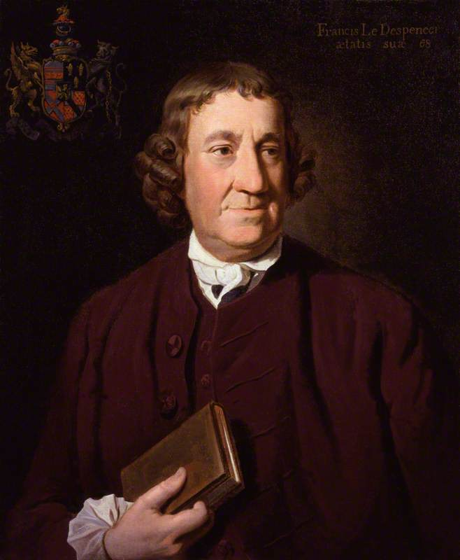 Francis Dashwood, 11th Baron le Despencer